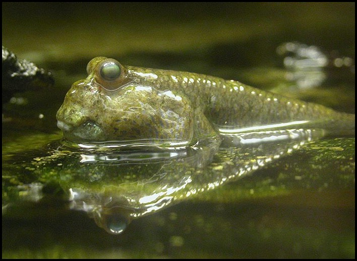 Periophthalmus sp.